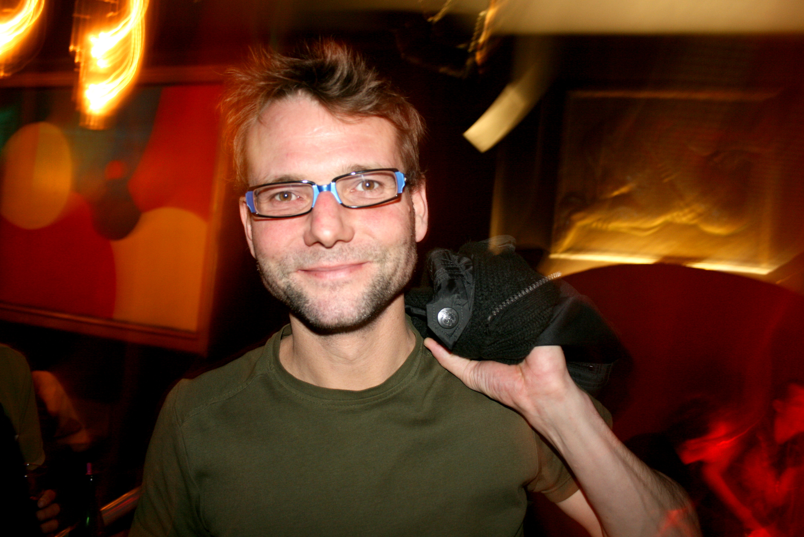 Czech director Radim Špaček at Mezipatra film festival 2007 in Prague.